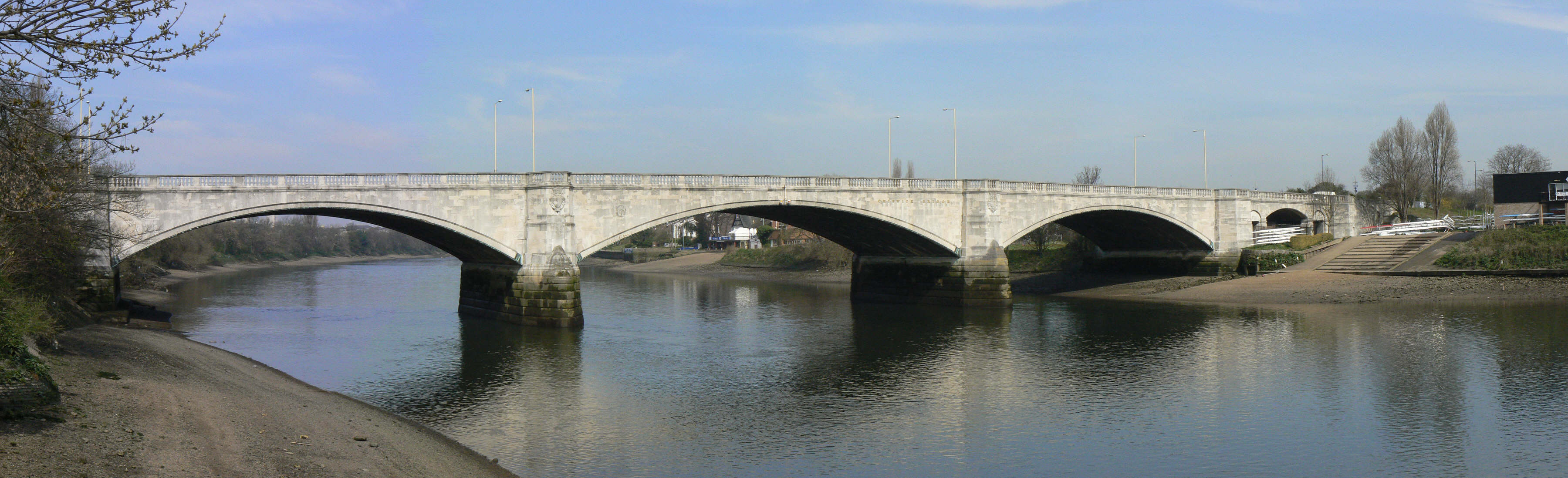 Chiswick Bridge over the Thames River, looking upstream. This panorama is made from 4 photos.